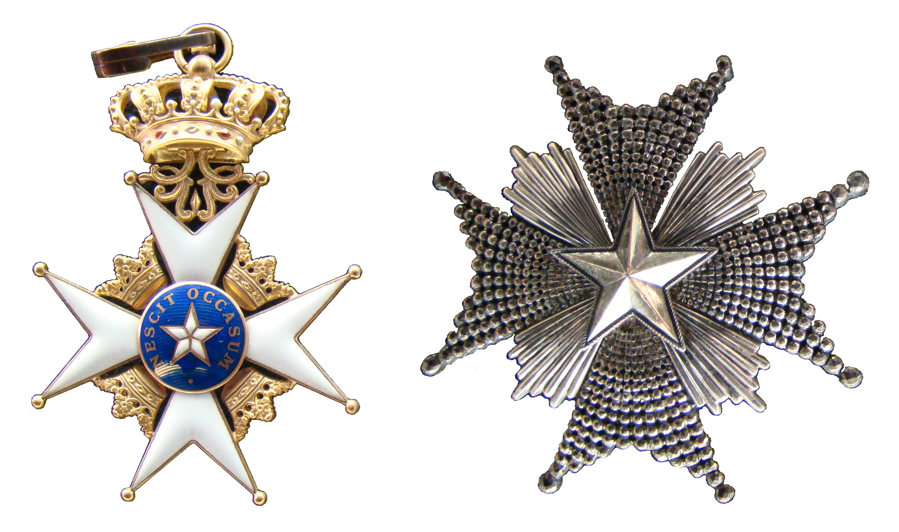 Badge and star of the Order of the North Star. These were awarded to Roald Amundsen for his South Pole Expedition.